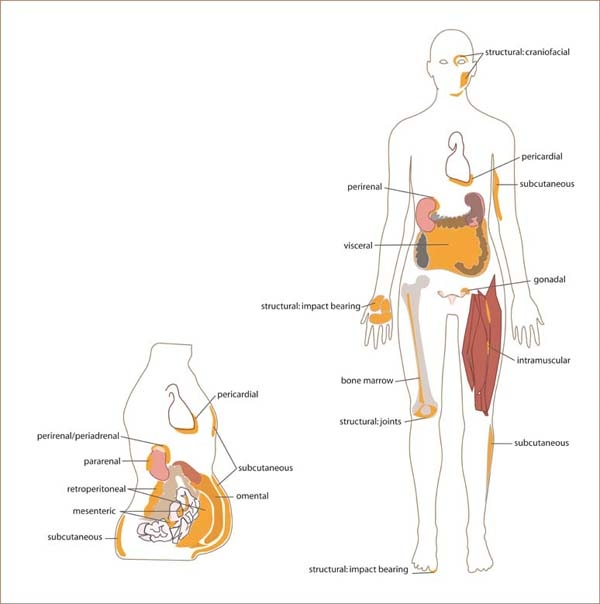 White adipose falls under two major classifications: visceral, or surrounding organs, and subcutaneous, under the skin. Fat is distributed widely throughout the body and has different functions and growth properties depending on its location. For example, adipose surrounding sex organs can secrete sex hormones, subcutaneous fat is responsive to energy storage needs and structural fat pads on the feet have not been shown to secrete any factors of interest, nor do they show significant changes in growth. Excessive visceral or gut fat, composed of retroperitoneal fat (“behind the peritoneum”), omental fat (adipose in a sheet of connective tissue hanging as a flap originating at the stomach and draping the intestines), and mesenteric fat (adipose in the sheets of connective tissue holding the intestines in their looping structure), has been shown to be a risk factor for diabetes and cardiovascular disease.